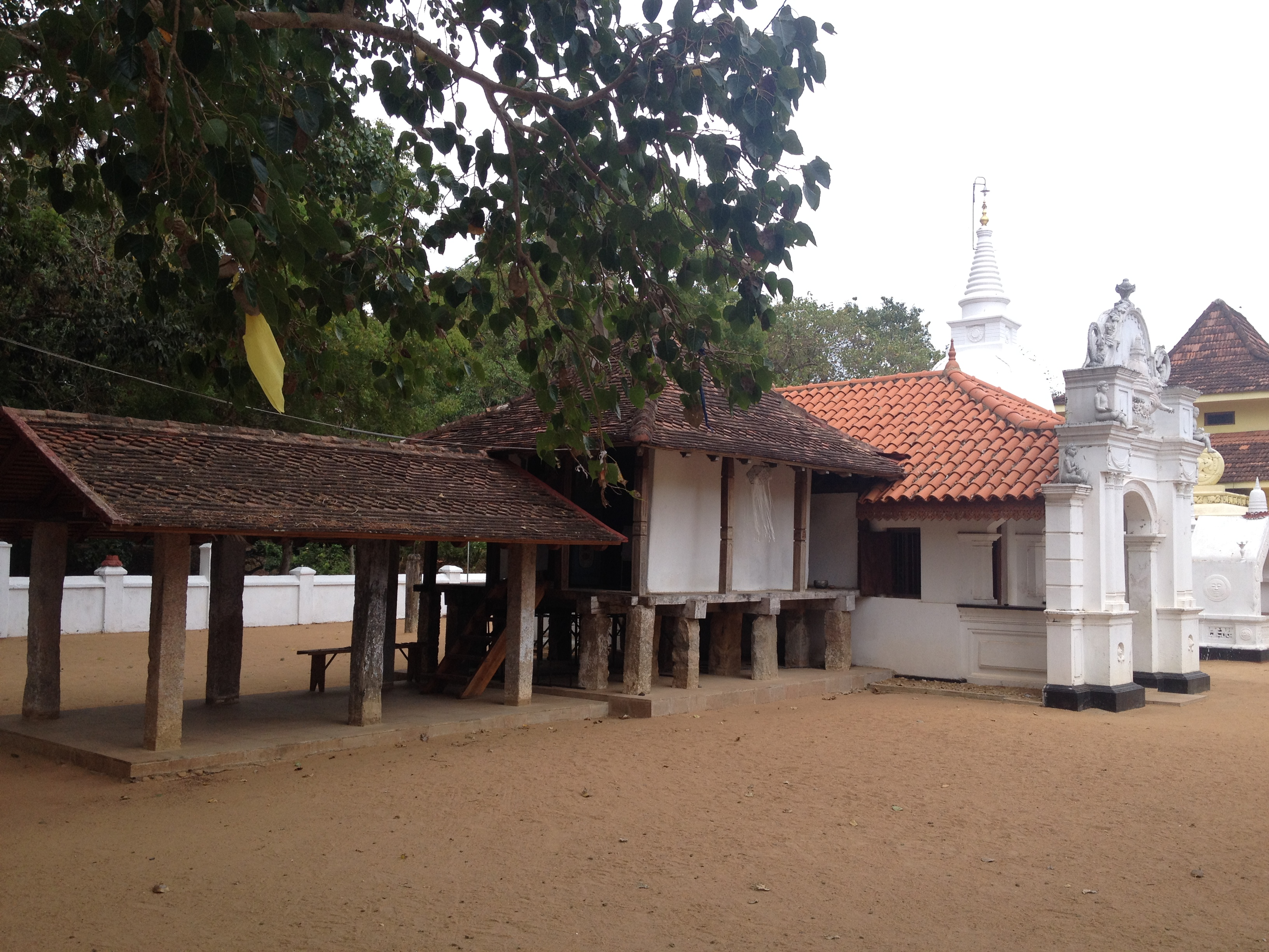 The Tempita image house at Vihara premises